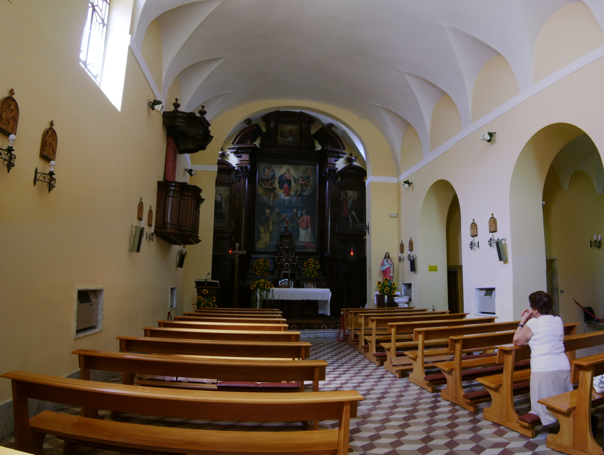 The Capuchin monastery in Guardiagrele, in the province of Chieti, Abruzzo